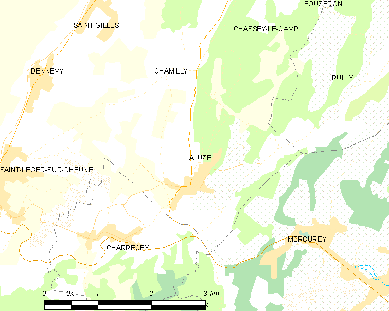 Map of French municipality